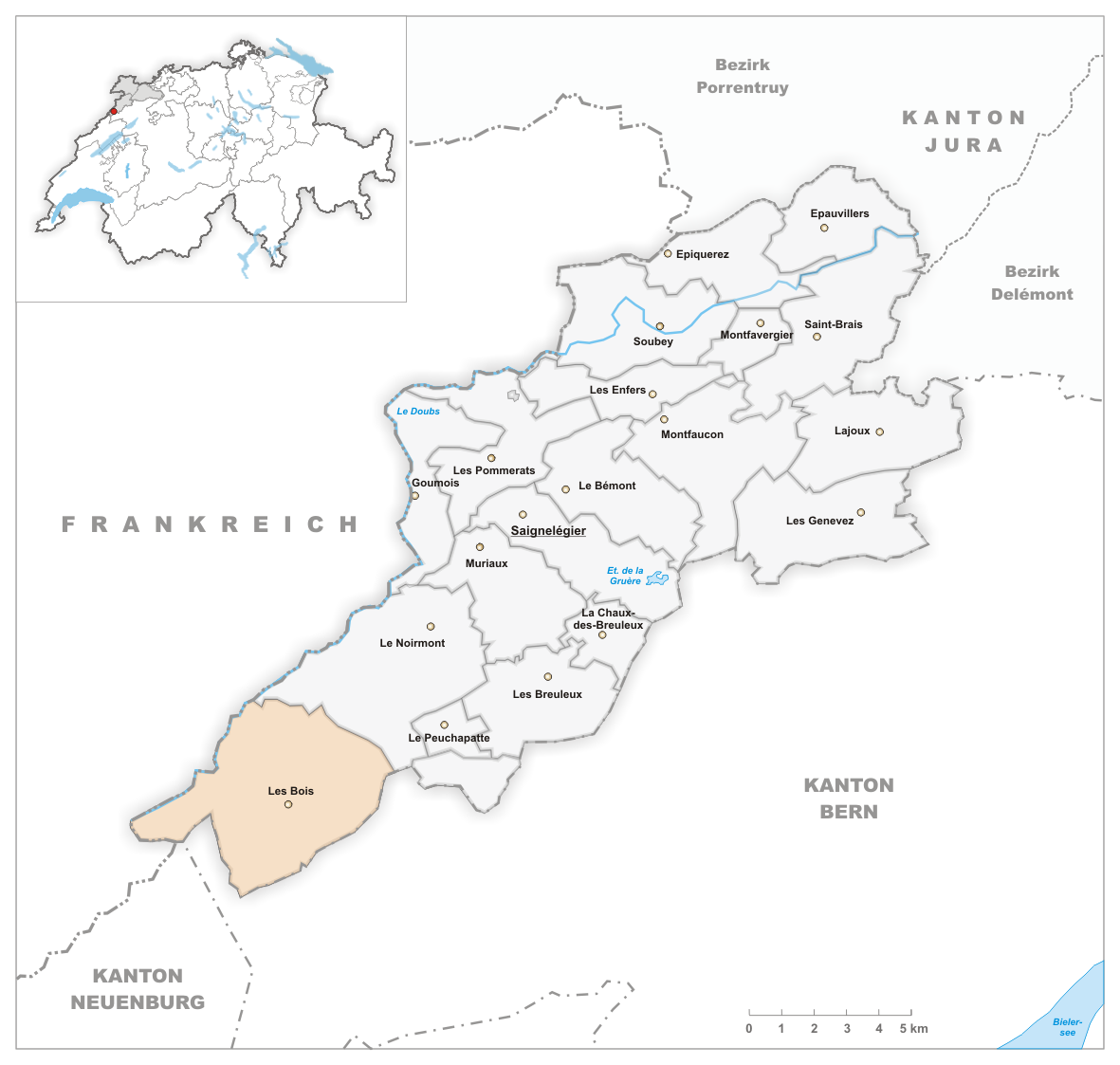 Municipality Les Bois